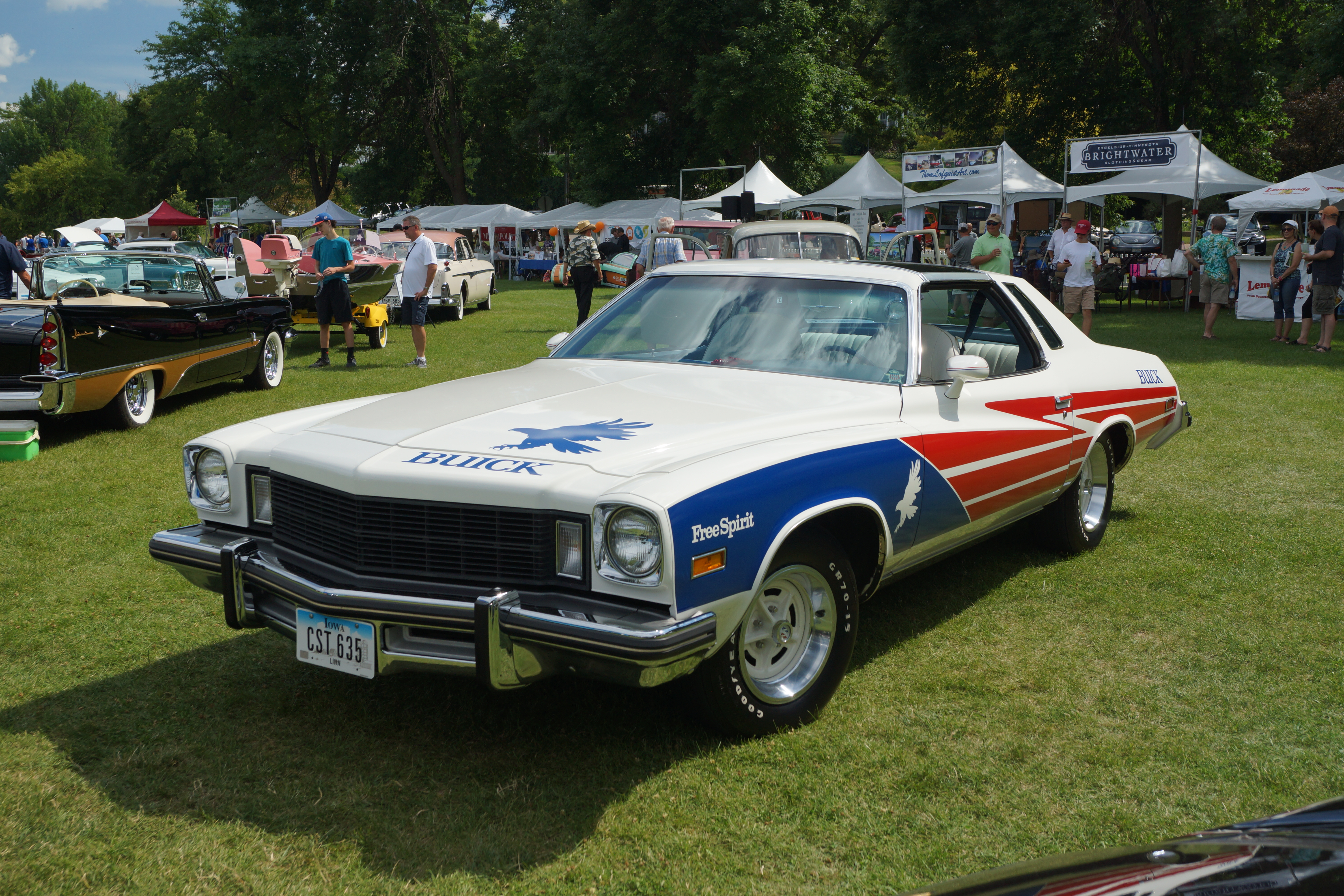 10,000 Lakes Concours d'Elegance Excelsior Commons Excelsior, Minnesota July 30, 2017